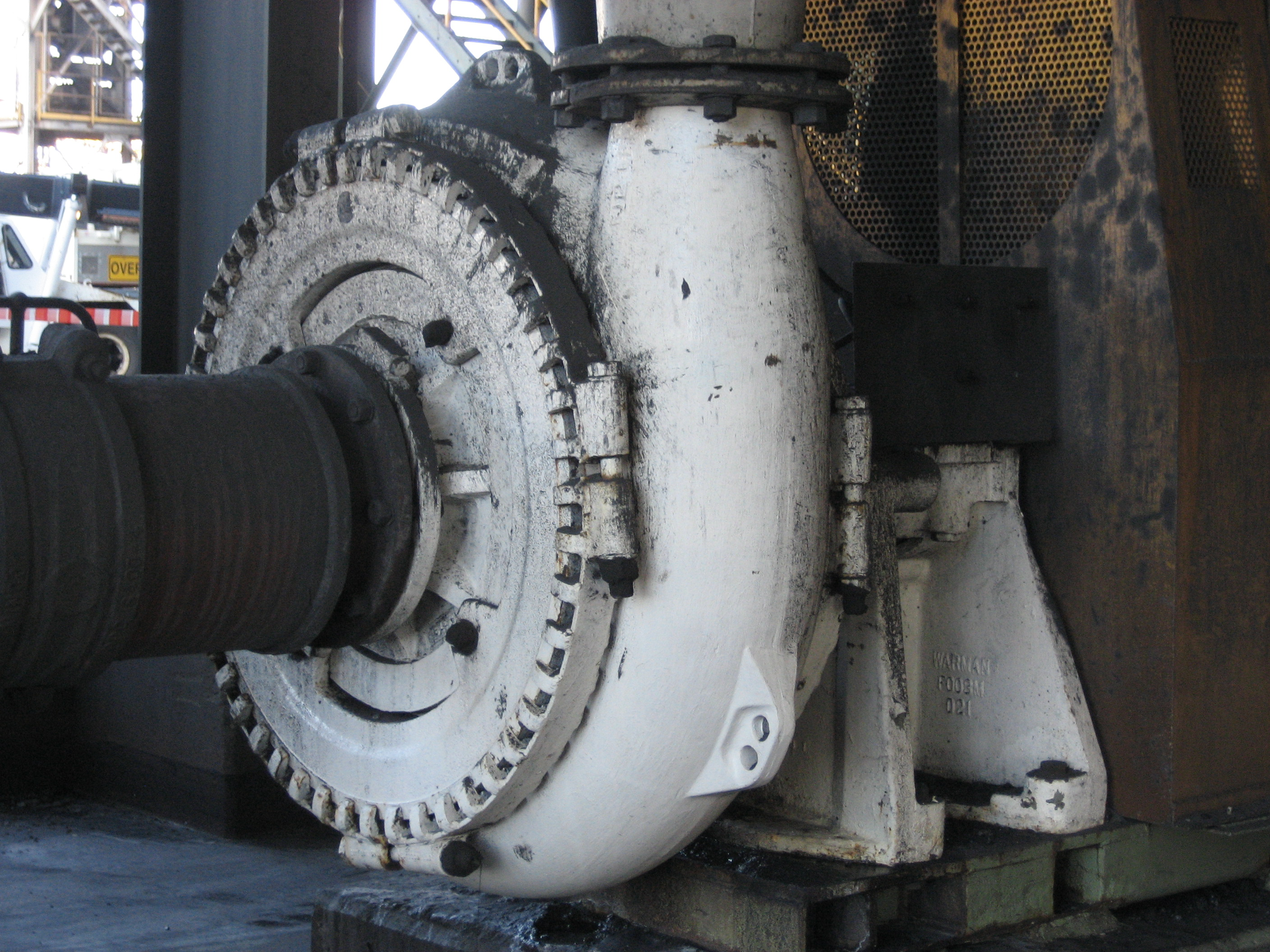 Warman centrifugal pump, driven by electric motor via vee belts